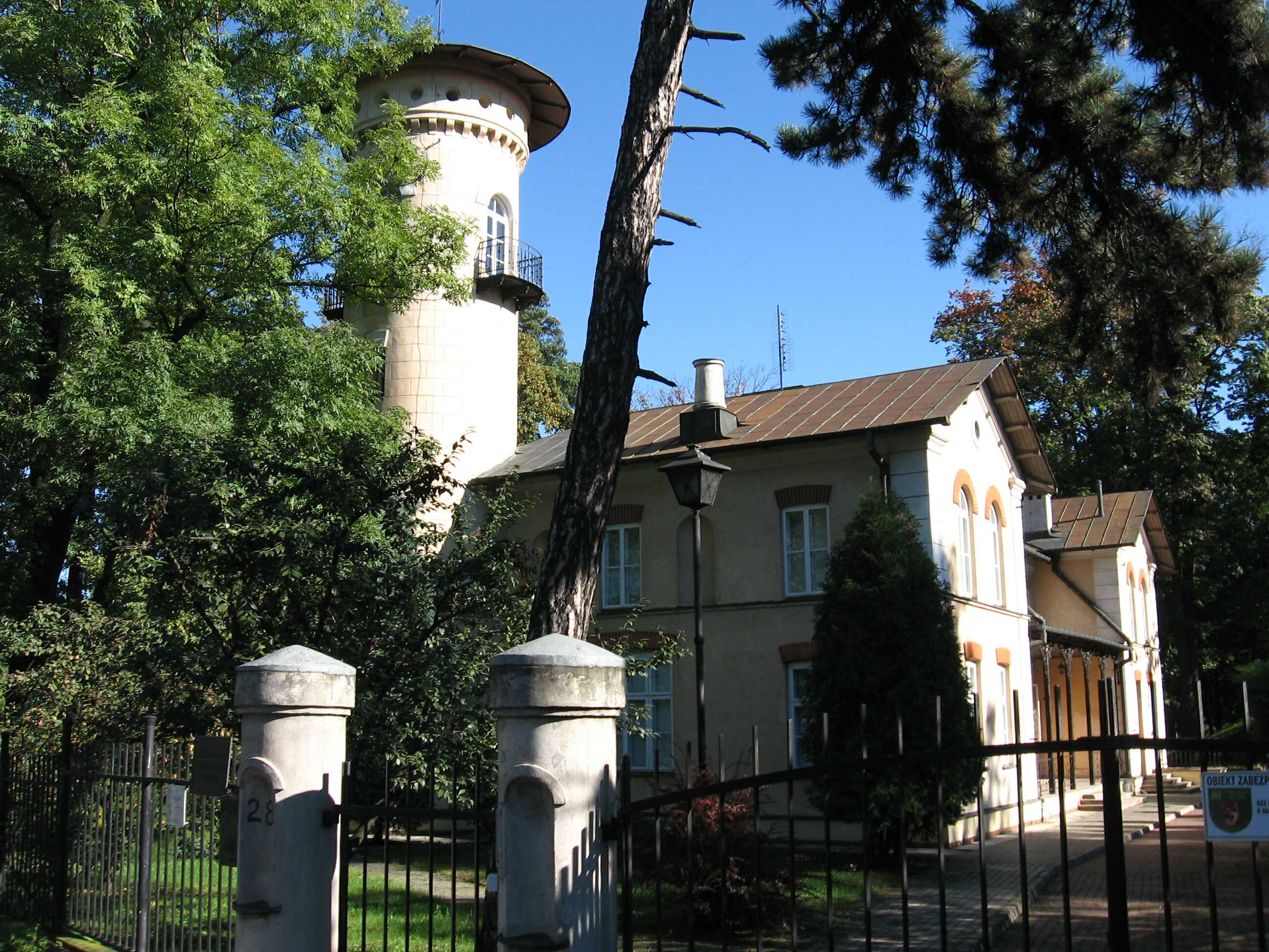 Villa Foksal in Grodzisk Mazowiecki